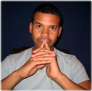 Portrait photo of Iman Crosson.